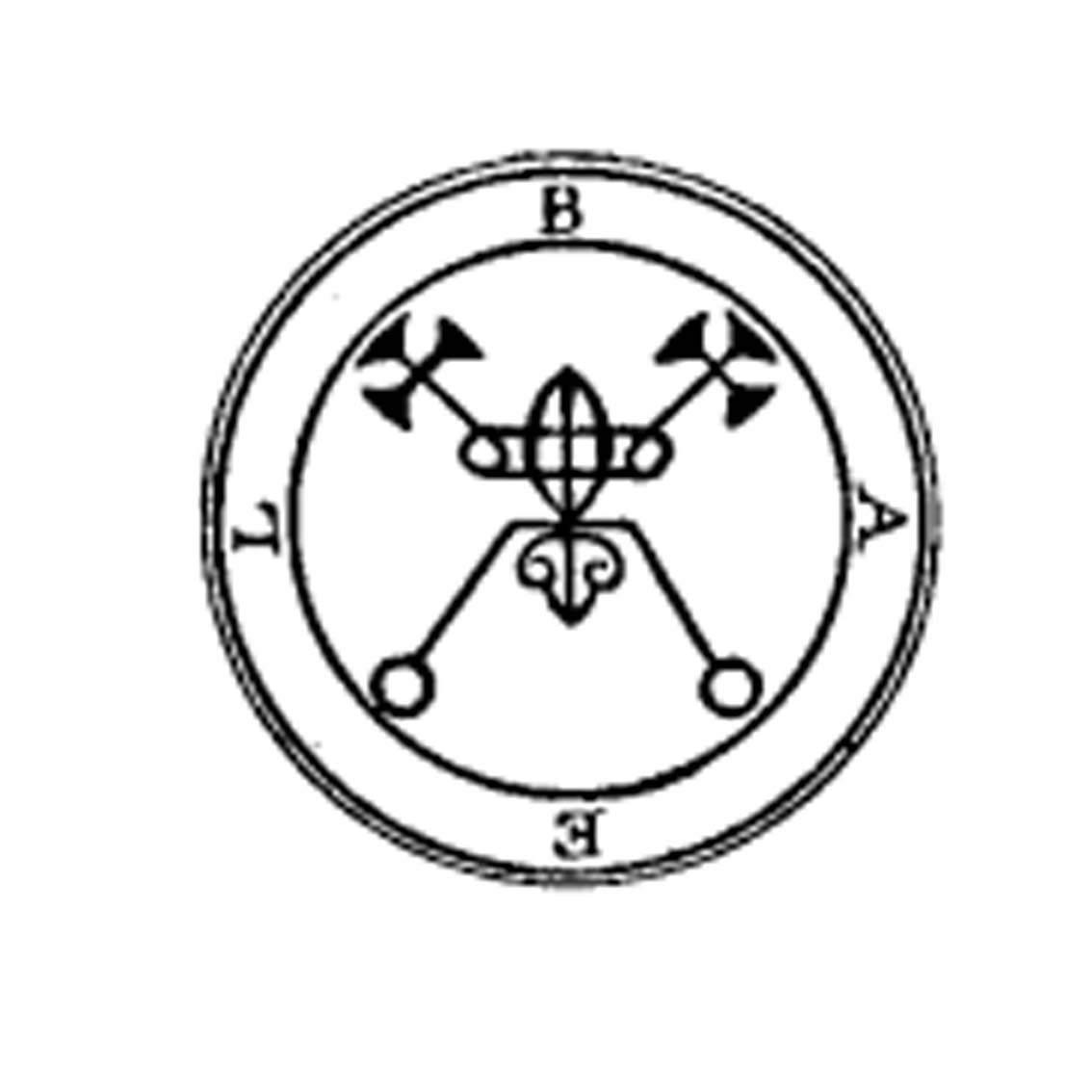 The seal of the demon Bael, see List of demons in the Ars Goetia